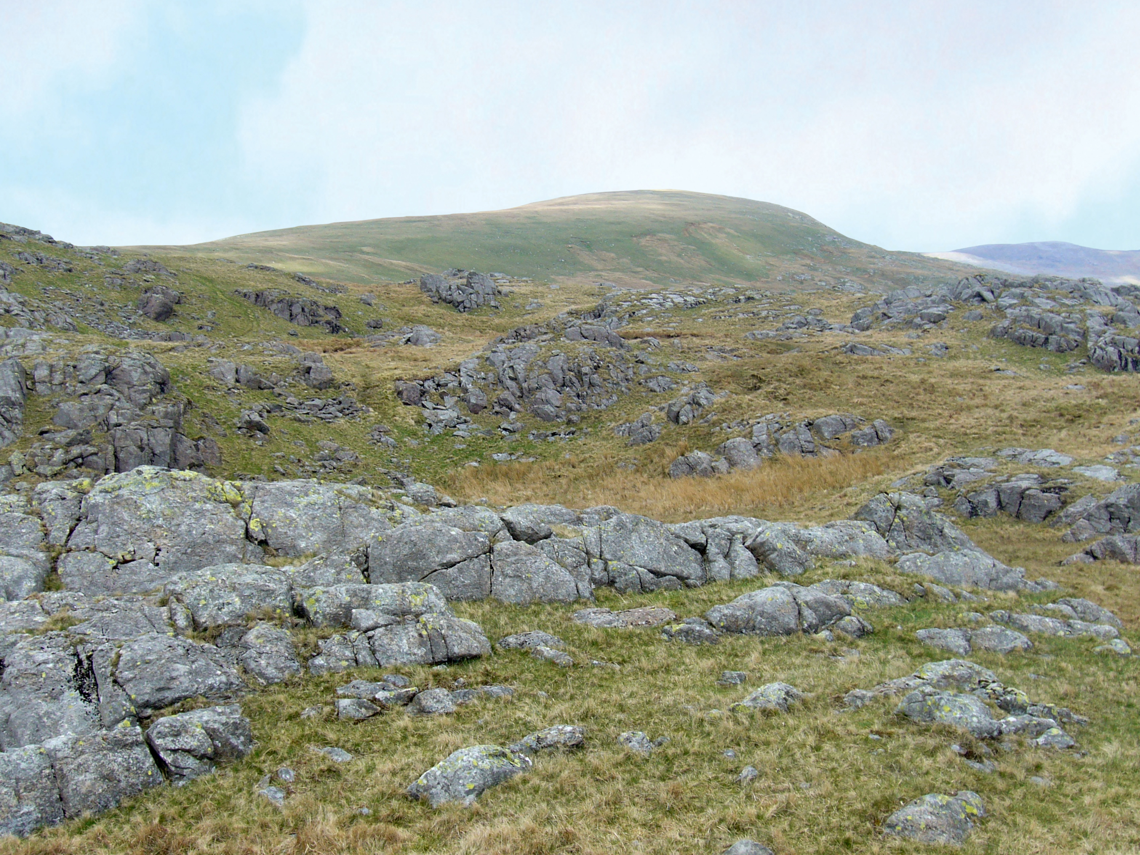 View of the fell Seatallan in the Lake District, England.